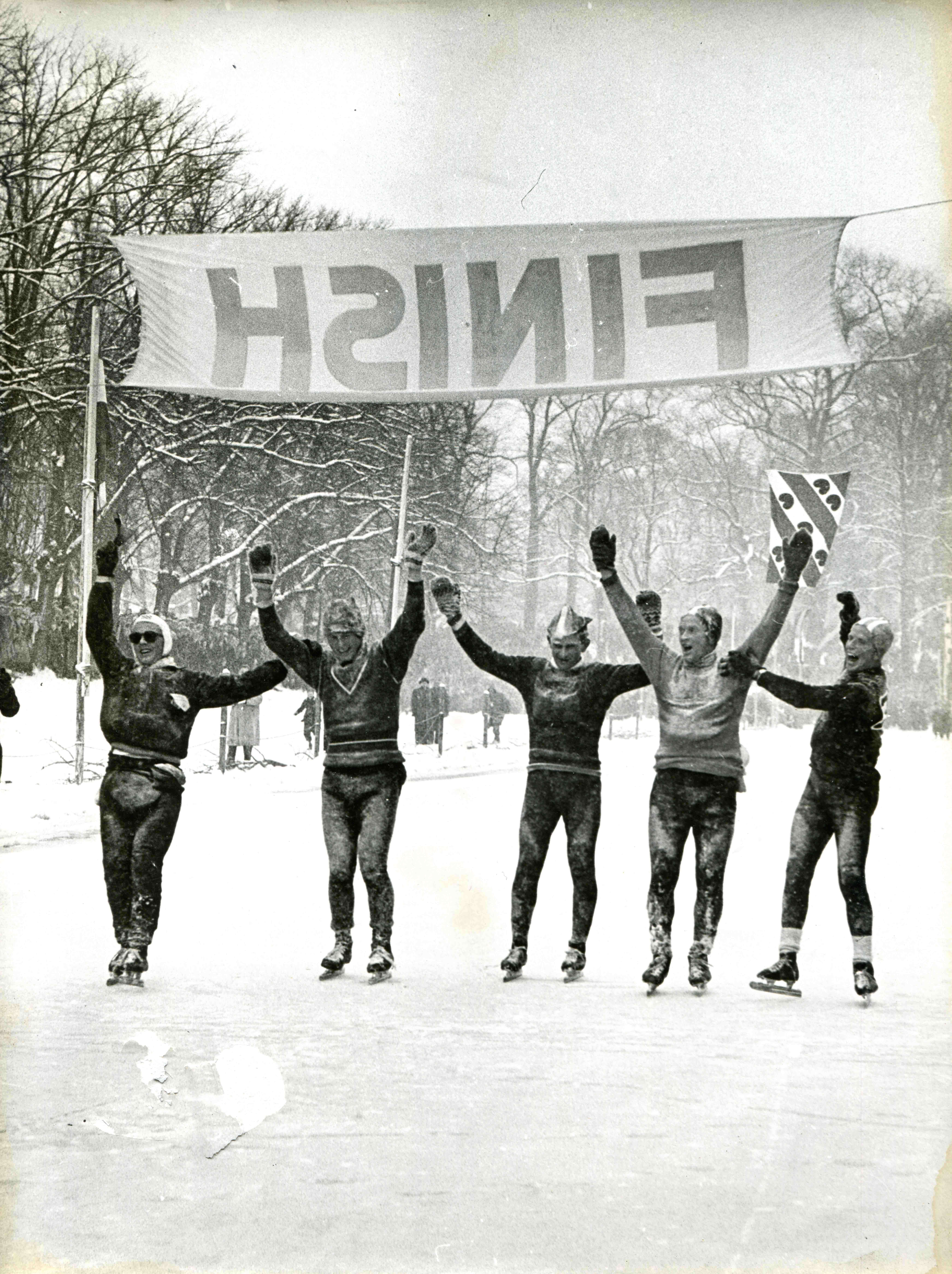 Finish elfstedentocht 1956. Jan van der Hoorn, Aad de Koning, Jeen Nauta, Maus Wijnhout & Anton Verhoeven